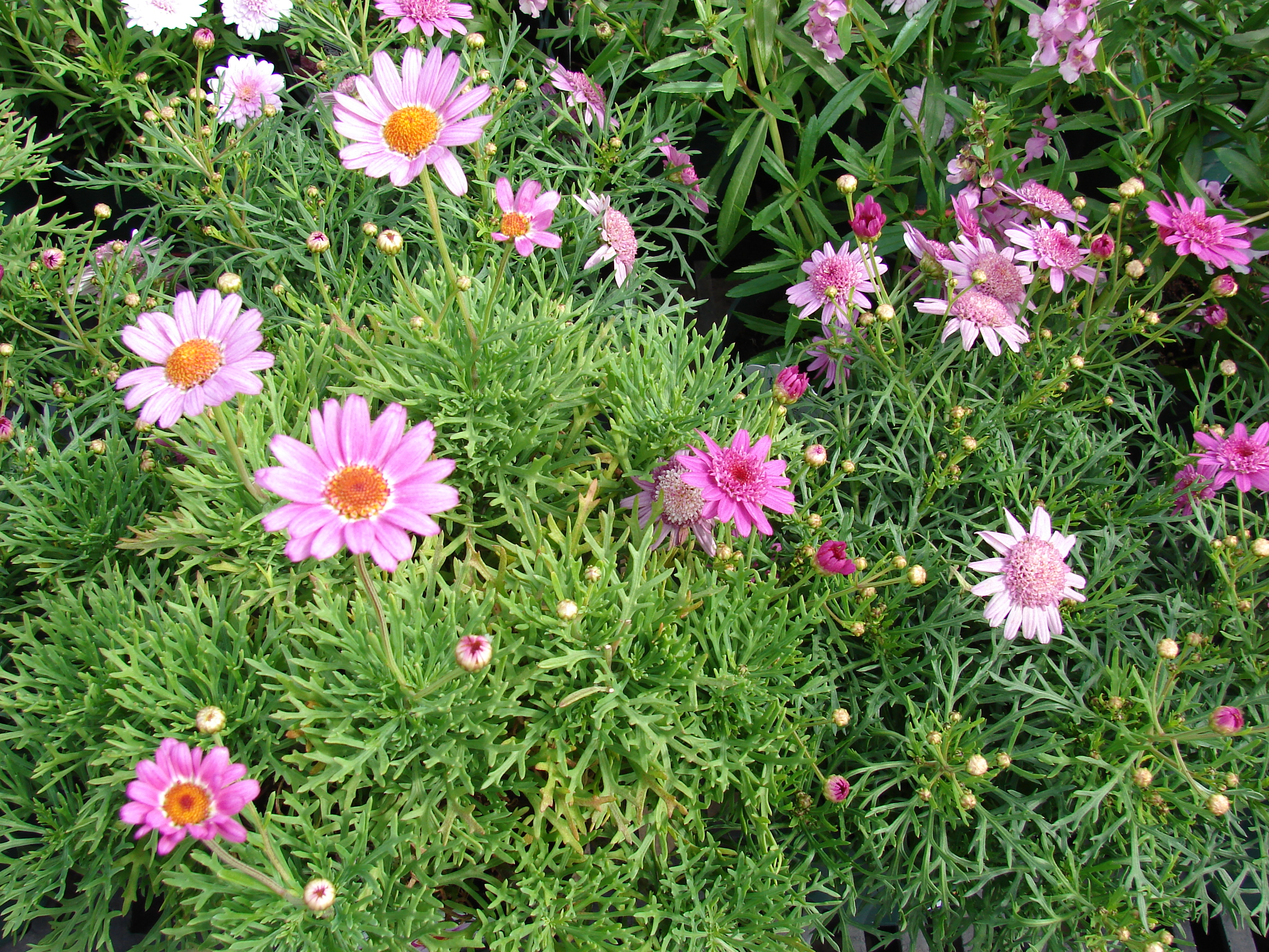 Argyranthemum frutescens (Madeira crested pink flowers and leaves). Location: Maui, Kula Ace Hardware and Nursery